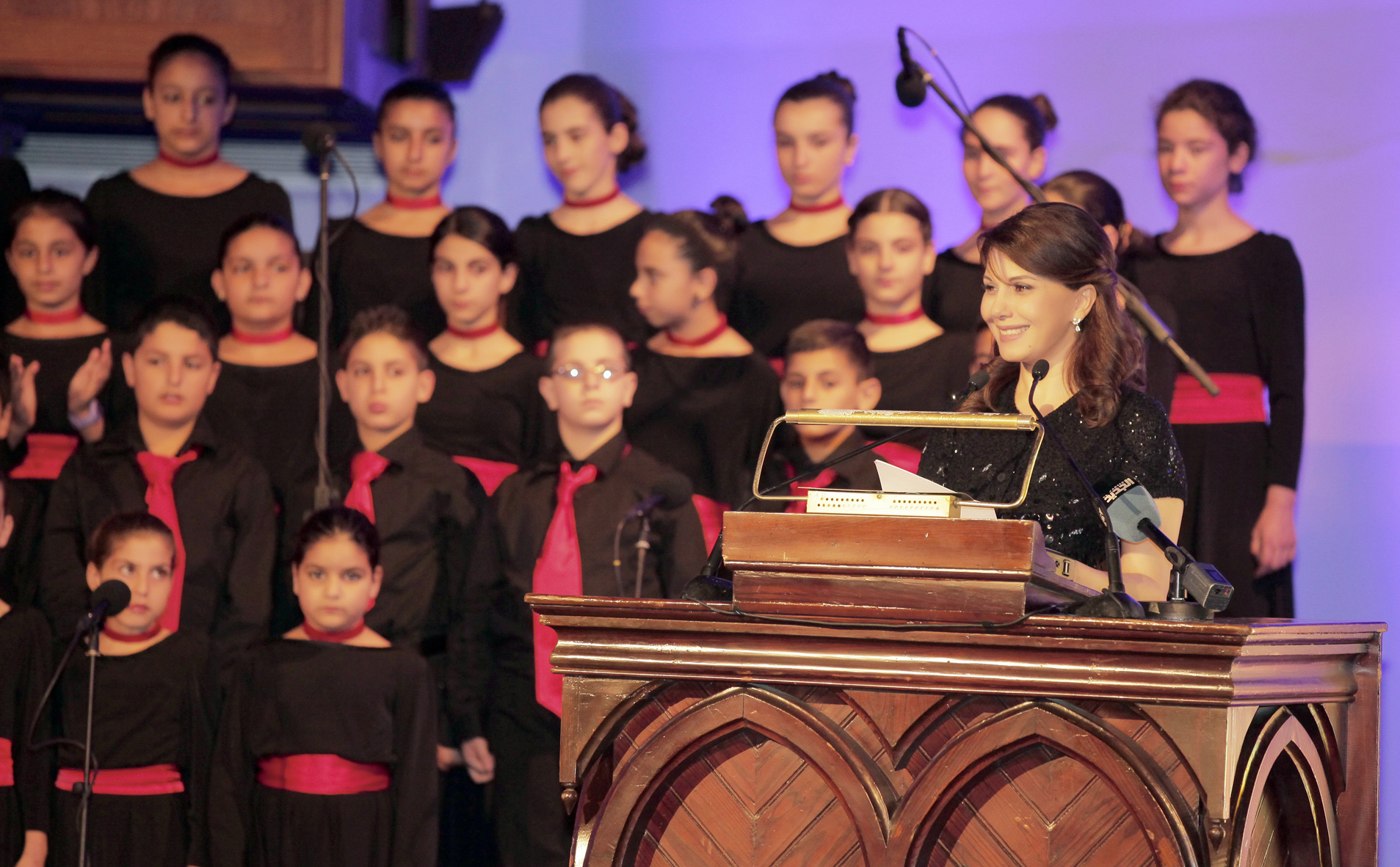 Majida El Roumi giving a speech - AUB, July 2012